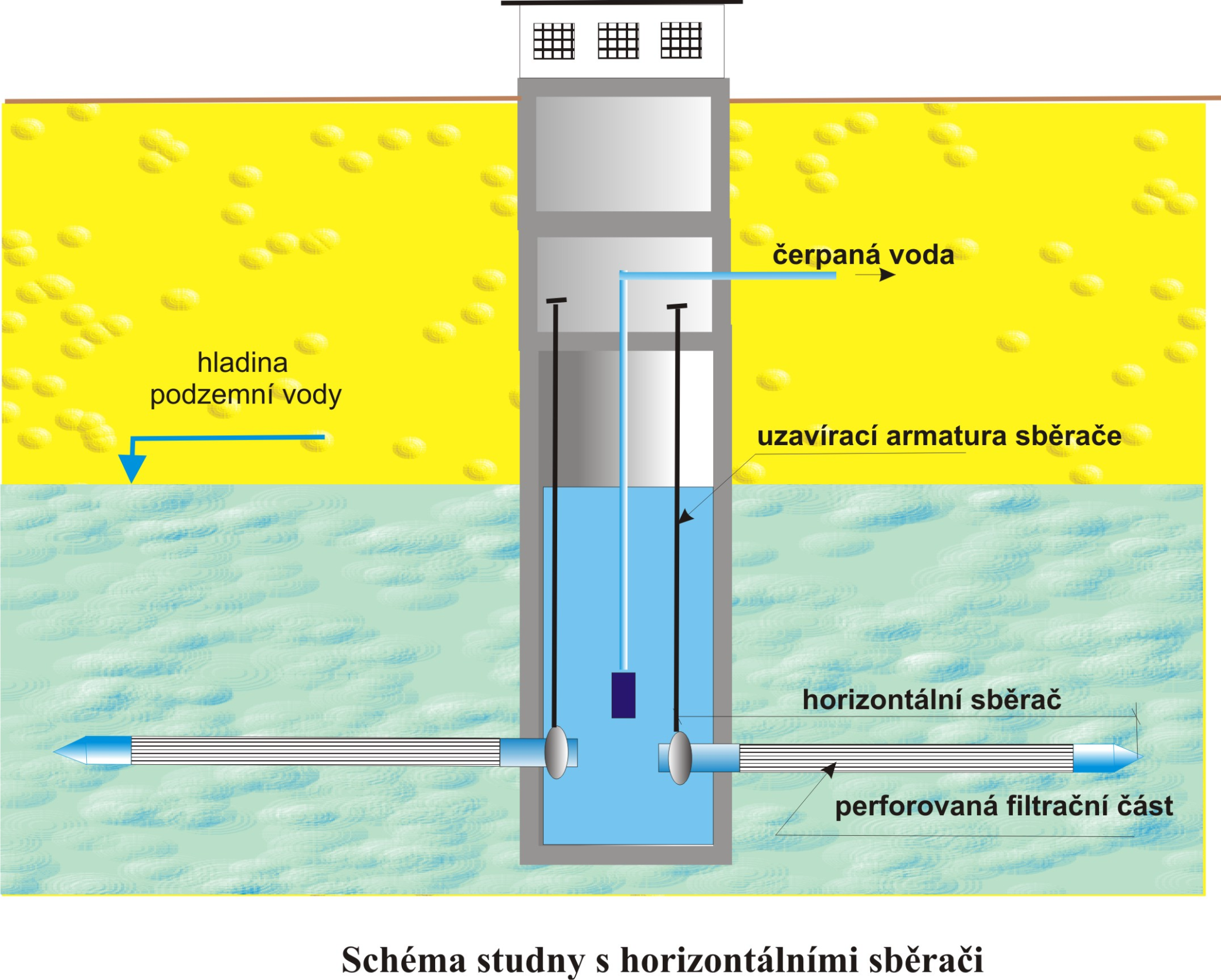 Raney well